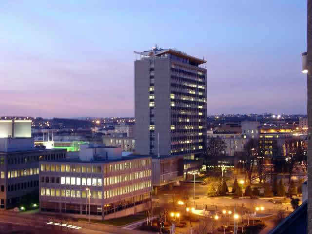 Council Offices, Plymouth